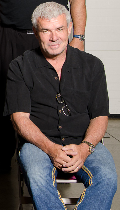 Pic of Eric Bischoff taken on October 8th in Allentown, PA by me at the Hulk Hogan & friends event.